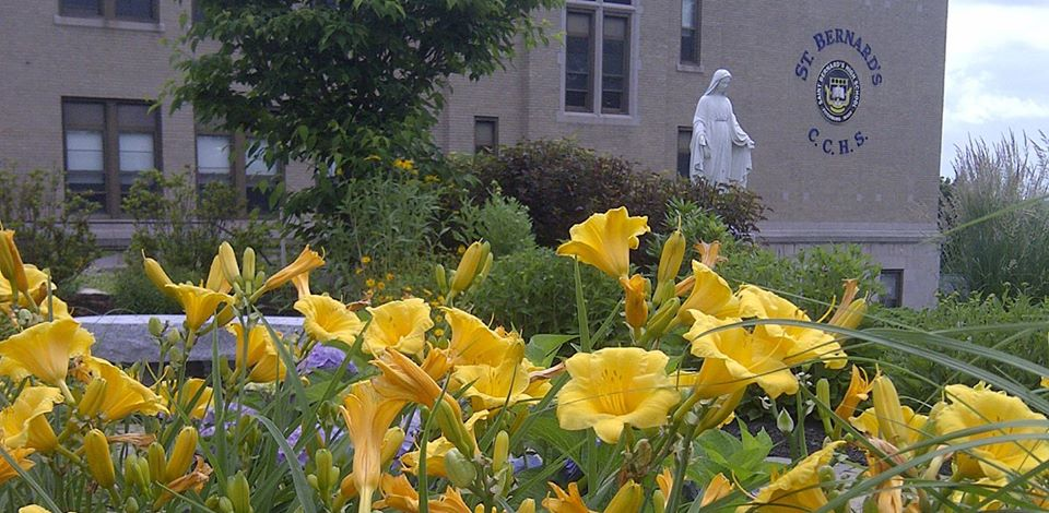 Exterior of St Bernard's High School in Fitchburg, MA